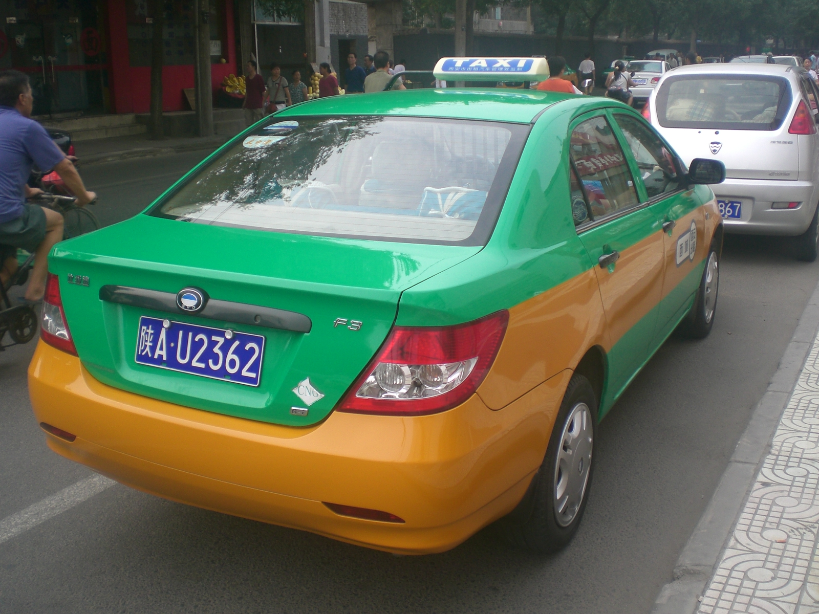 BYD F3 as a taxi in Xi'an